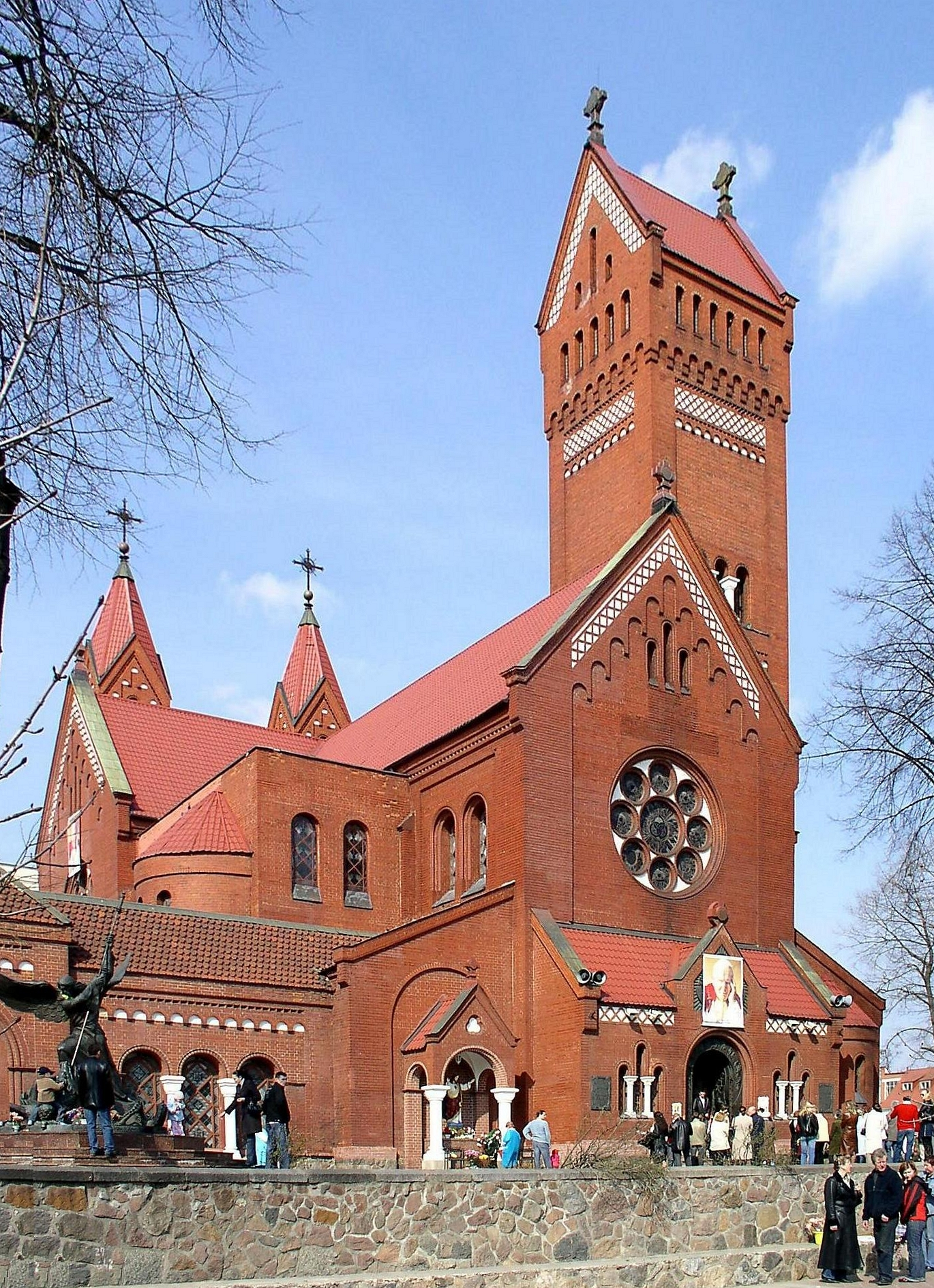 Church of Saint Simon and Helena, Minsk, Belarus.